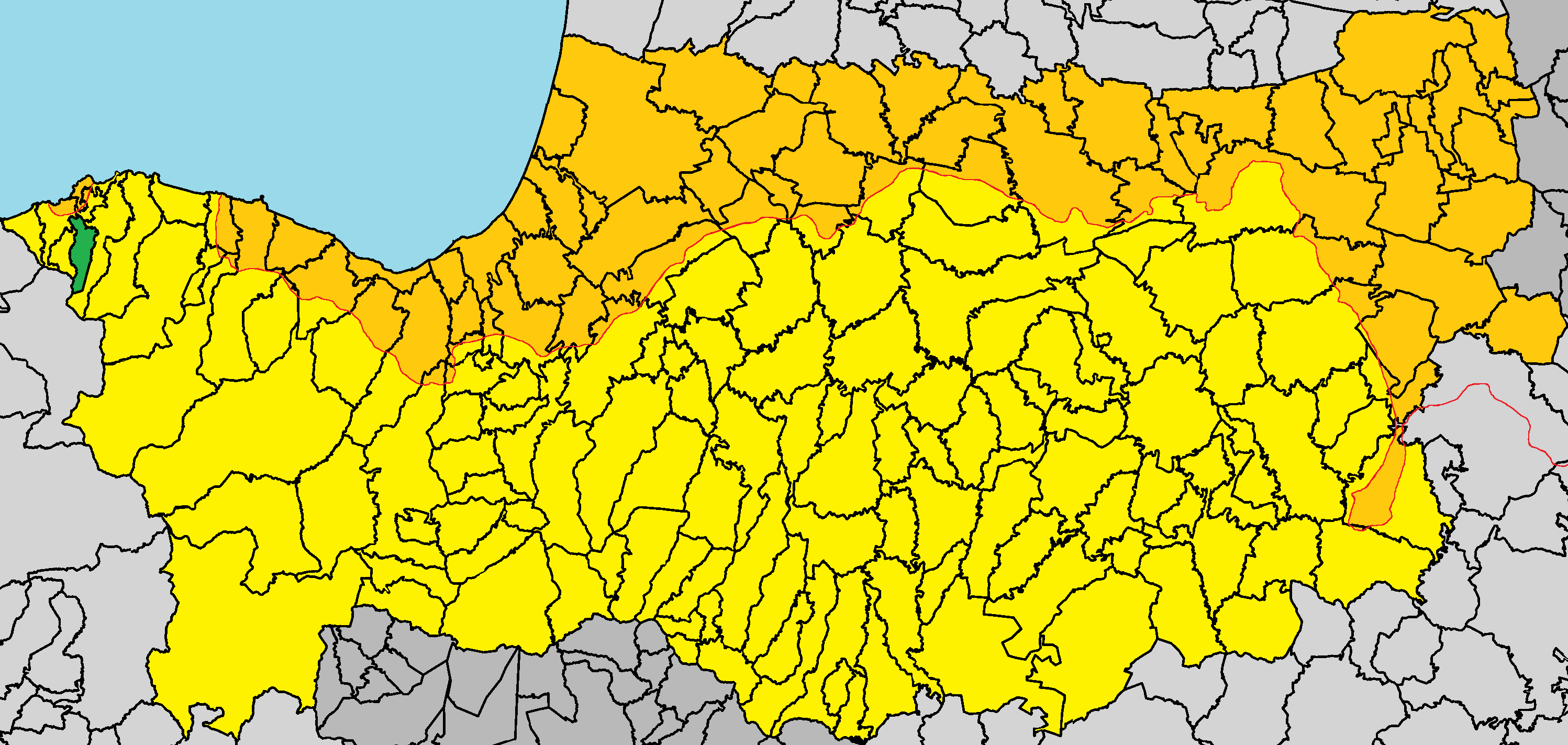 Selladi tou Appi in Nicosia District.